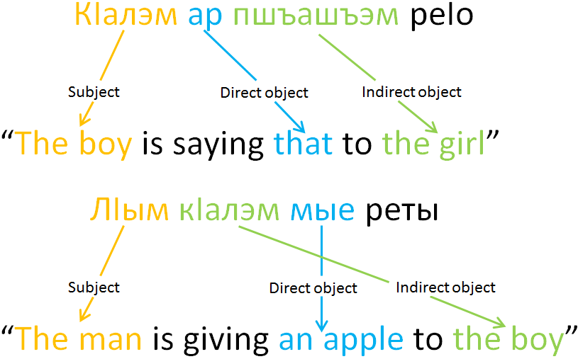 Adyghe sentences with three nouns